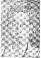 Acting President of South Korea(1960) Heo Jeong in 1945